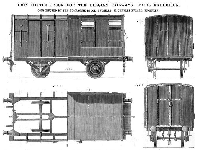 From the book text The Compagnie Belge manufacturers of general machinery locomotive and rolling stock exhibit amongst their other railway plant a ten ton goods or cattle truck of which we now give drawings Fig 1 is a half elevation and half section Fig 2 a plan and Figs 3 and 4 a section and end view respectively. In its general dimensions and arrangement it corresponds exactly with similar vehicles in use on the Belgian states railways but with the exception of an oak flooring it is constructed entirely of iron The body is formed of panels sheet iron riveted on the outer side to angle and channel irons which latter surround the body of the truck in single lengths A door is placed on each of the four sides those at the being hung on hinges whilst the others are carried on rollers as seen in Fig I An inclined plane is placed at each end of the truck to facilitate the ingress and egress of cattle and the binges to which the doors are hung are arranged adapt themselves to the varying positions of the plane. There are four sets of fixed louvres in each side of the Fig 1 which can be covered either partially or altogether the outside by sheet iron slides which work in grooves are moved by the handles shown in elevation The frame is formed of two longitudinal channel irons connected by cross beams of an I section a judicious of gusset and stiffening pieces removing the necessity of any bracing Brackets are riveted to the outside of the frames to which the body of the truck is secured and the structure is mounted upon disc wheels furnished with Bessemer axles On referring to Fig 2 it will be seen that the draw hooks are connected with a central frame which runs along whole length ot the truck and is rivetted by gusset plates the end framing Tins forms a central support for the planking and takes the place of draw bar and springs The total of the vehicle is a little over 6 tons and nearly a ton than a similar truck constructed in wood".. see page 179 of source, Aug 30 1867